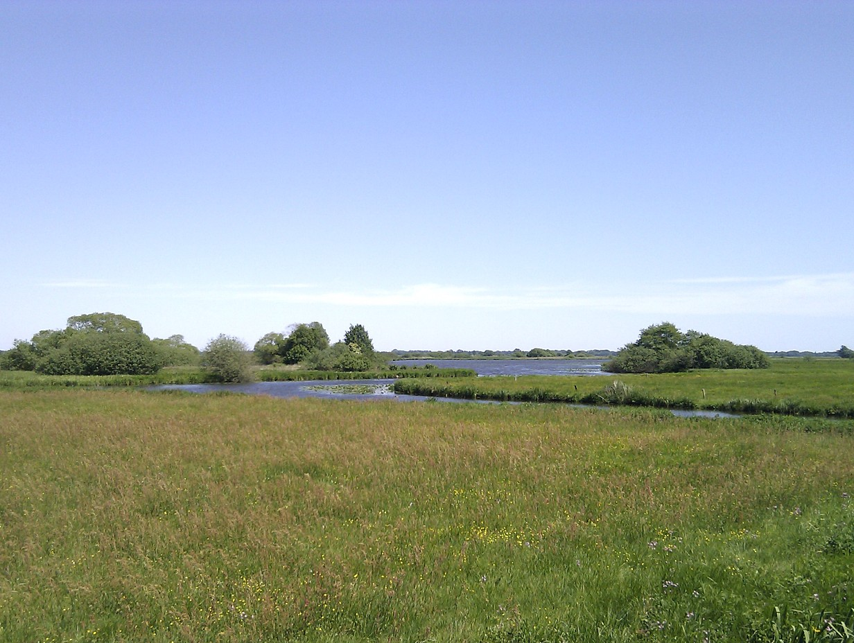 Meadows and old conserved arm of the river Hamme